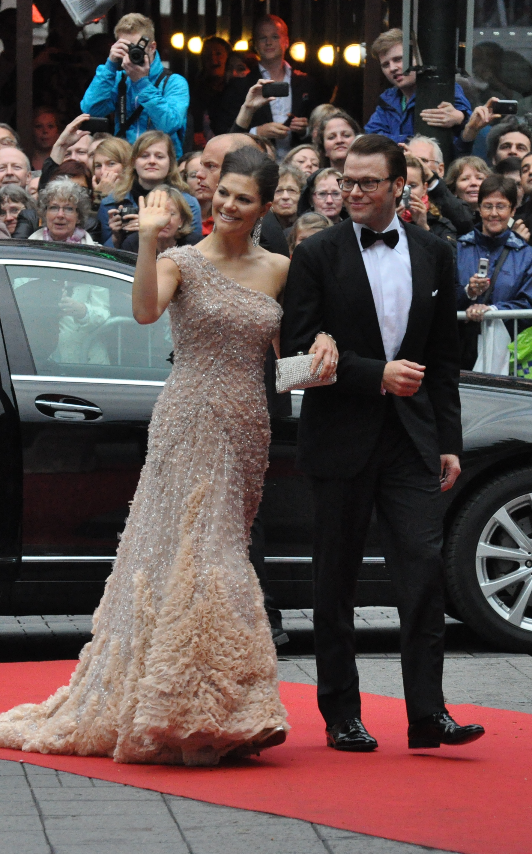 Wedding of Victoria, Crown Princess of Sweden, and Daniel Westling; Arrival to the Riksdag's Gala Performance at Konserthuset: HRH Victoria and Daniel